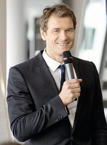 Jens Lehmann as SCHUNK's brand ambassador.